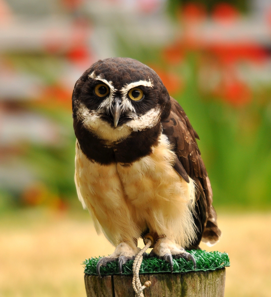 A Spectacled Owl at Woodland Park Zoo, Seattle, USA.